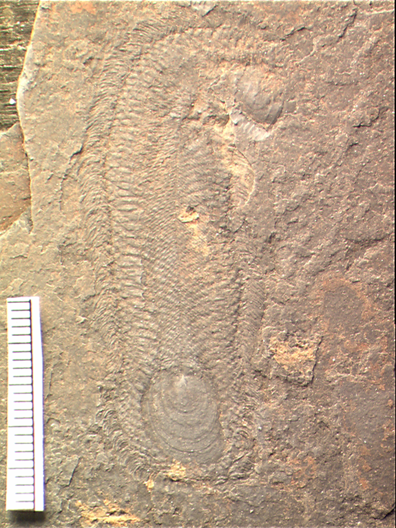 Picture of the fossil Halkieria evangelista from the Lower Cambrian Sirius Passet, North Greenland. Photo taken by Jakob Vinther